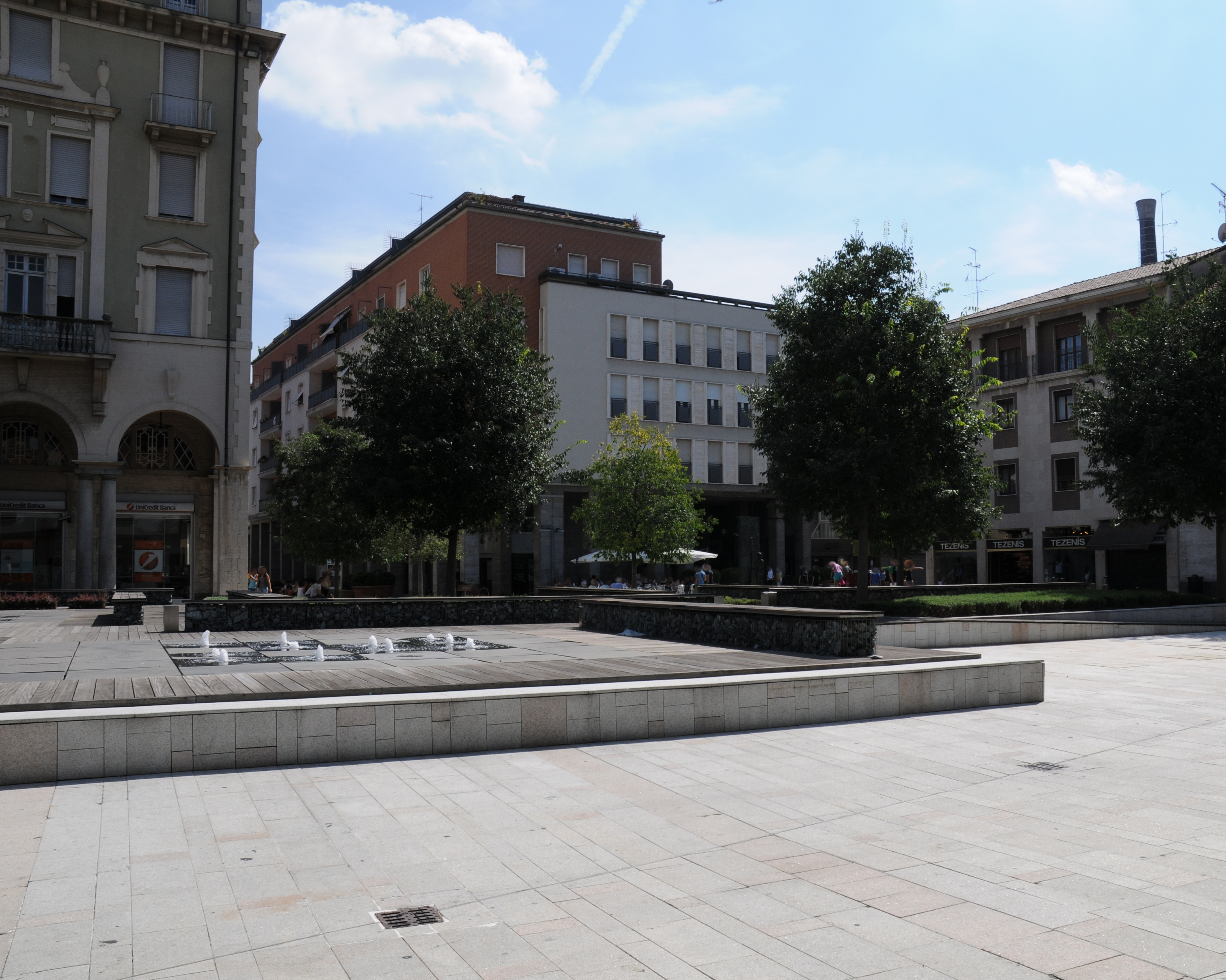 S. Magno Square in Legnano (Italy) and Cinema Teatro Galleria